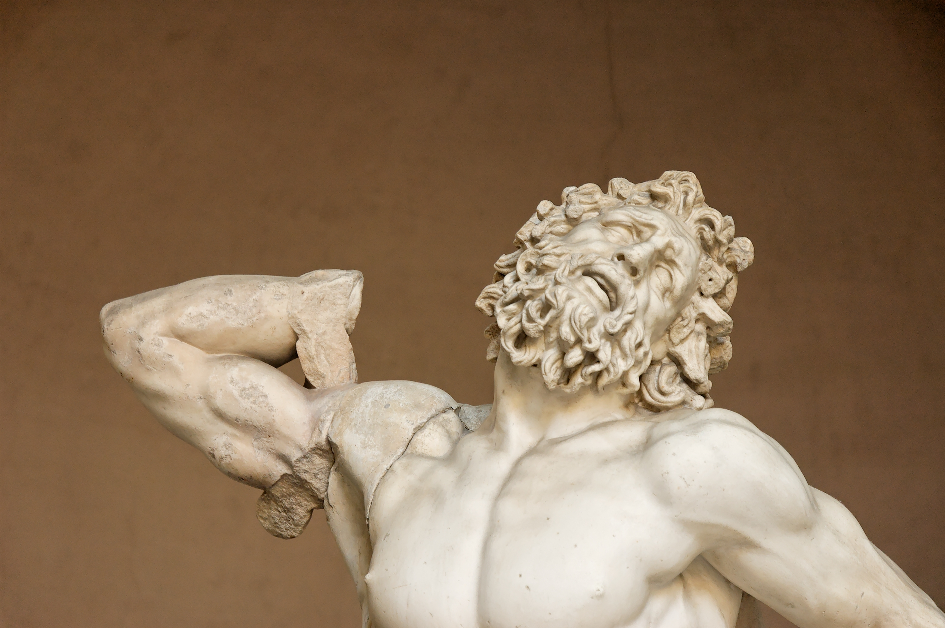 Laocoön and his sons, also known as the Laocoön Group. Marble, copy after an Hellenistic original from ca. 200 BC.